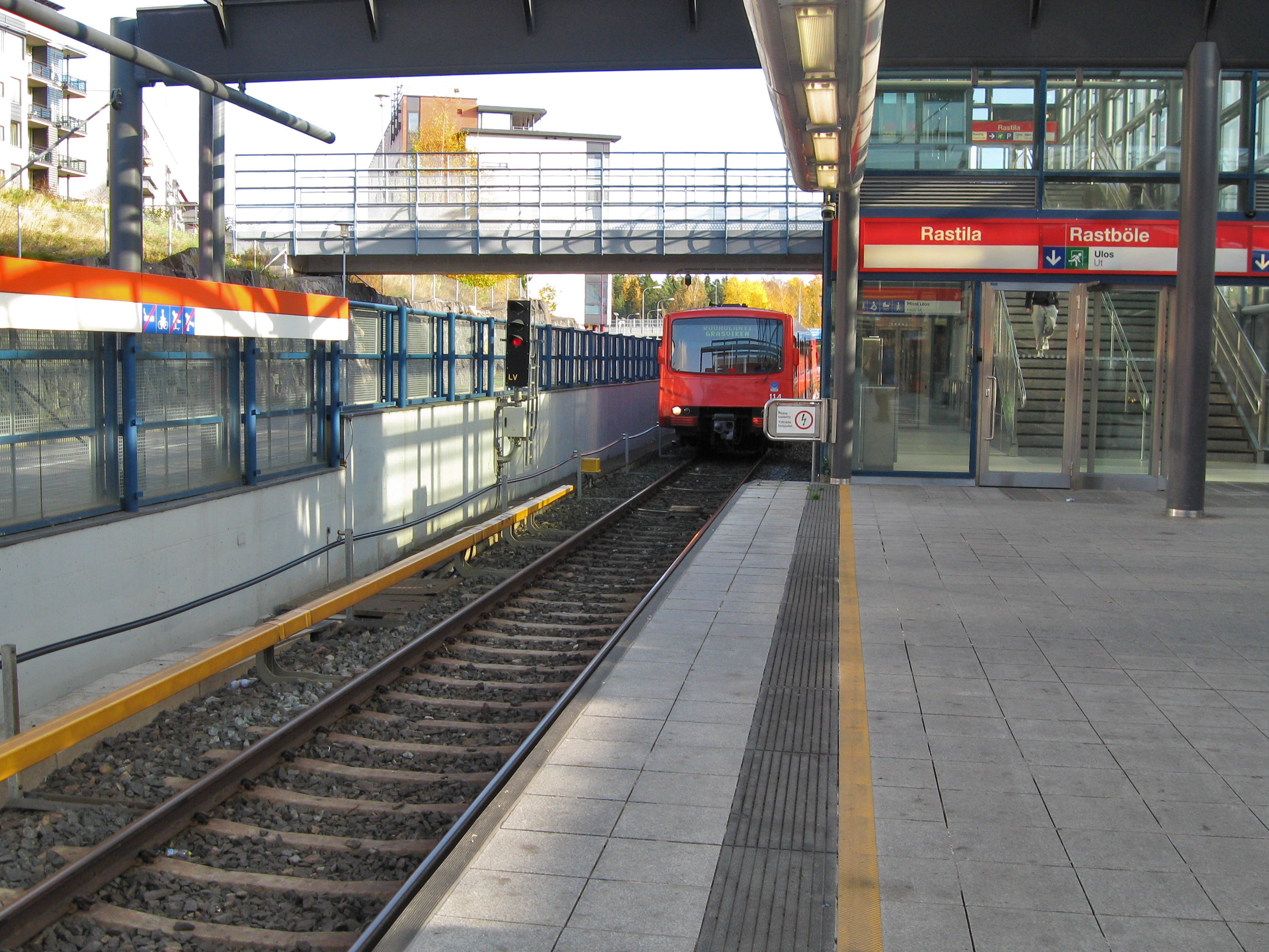 Rastila metro station in Helsinki